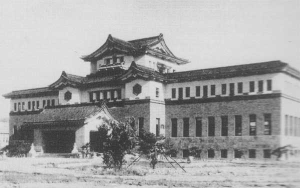 The present-day museum building in Toyohara (Yuzhno-Sakhalinsk)